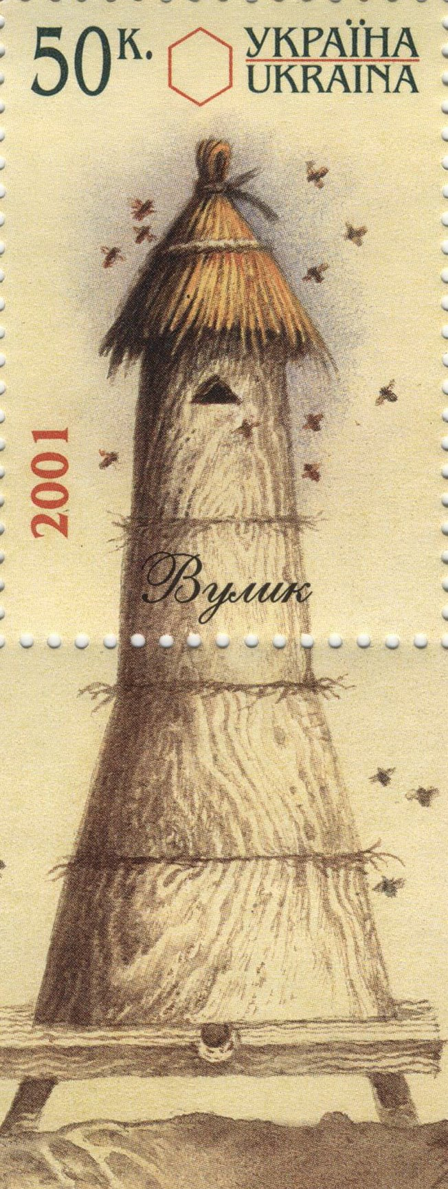 Vitvitskiy beehive bell construction on postal stamp of Ukraine